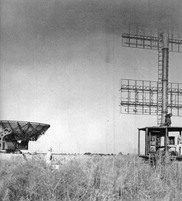 Air Force Museum Berlin-Gatow: German Radar "Wurzburg Riese" (FuMG 65) und "Freya"; ITU-classificatio: Radiolocation land station in the radiolocation service.